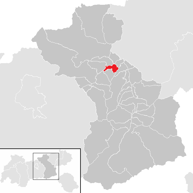 District Schwaz